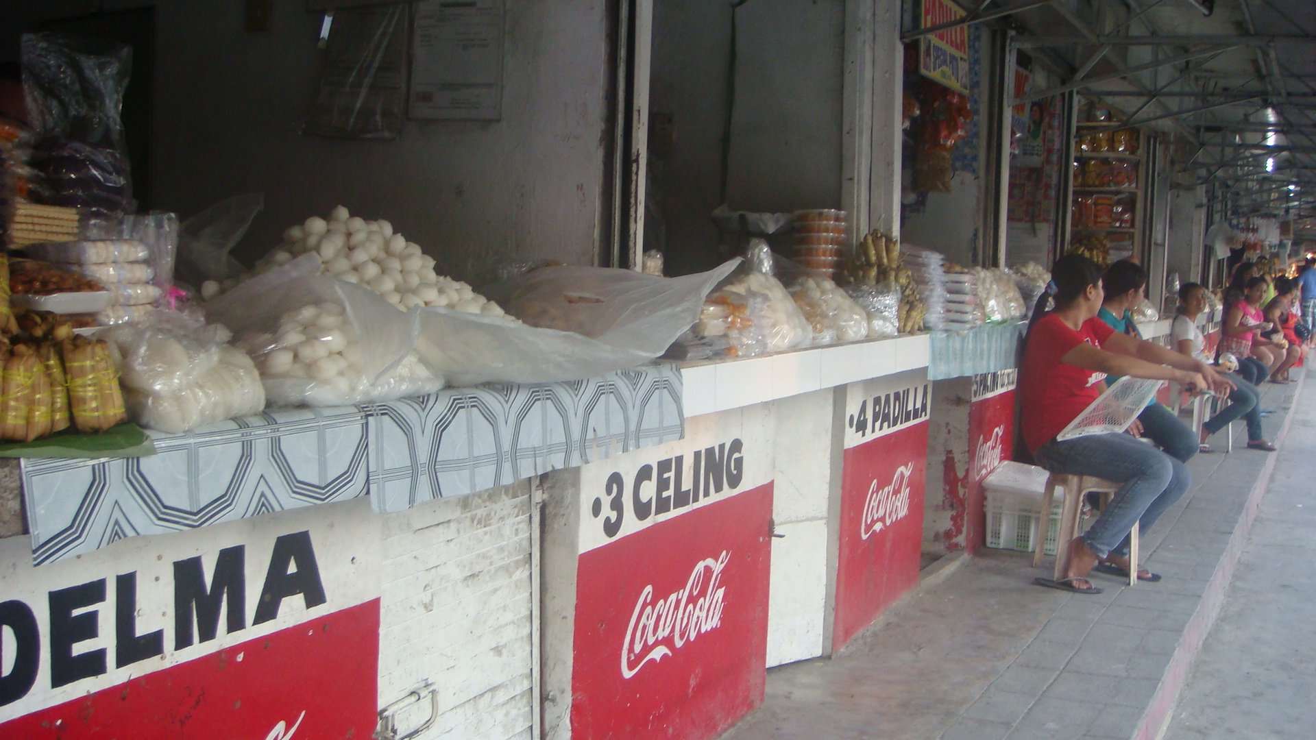 Long lines of Puto Calasiao, Pangasinan stores